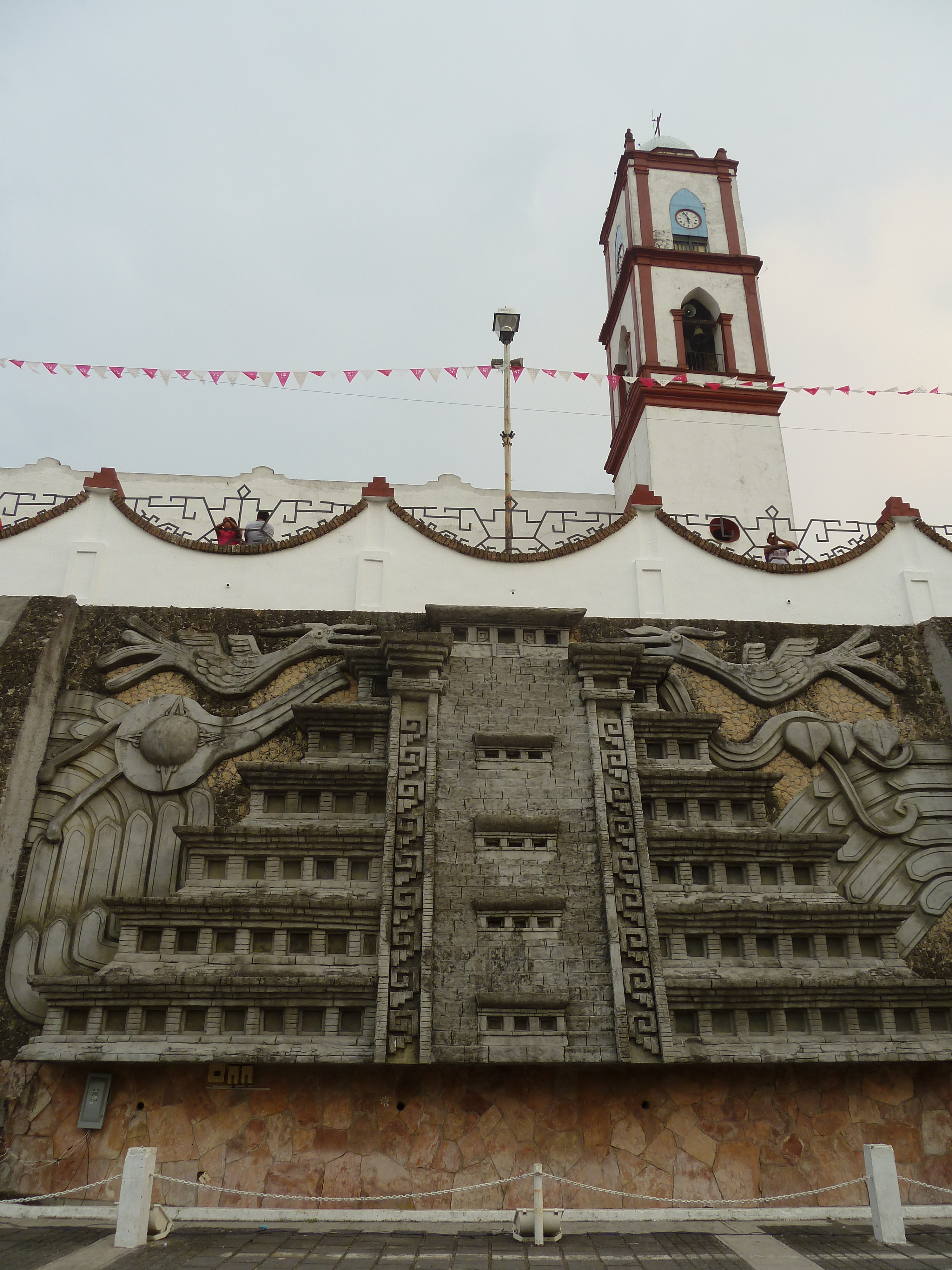 Mural escultórico a la cultura Totonaca, detalle, escultor Teodoro Cano, Papantla